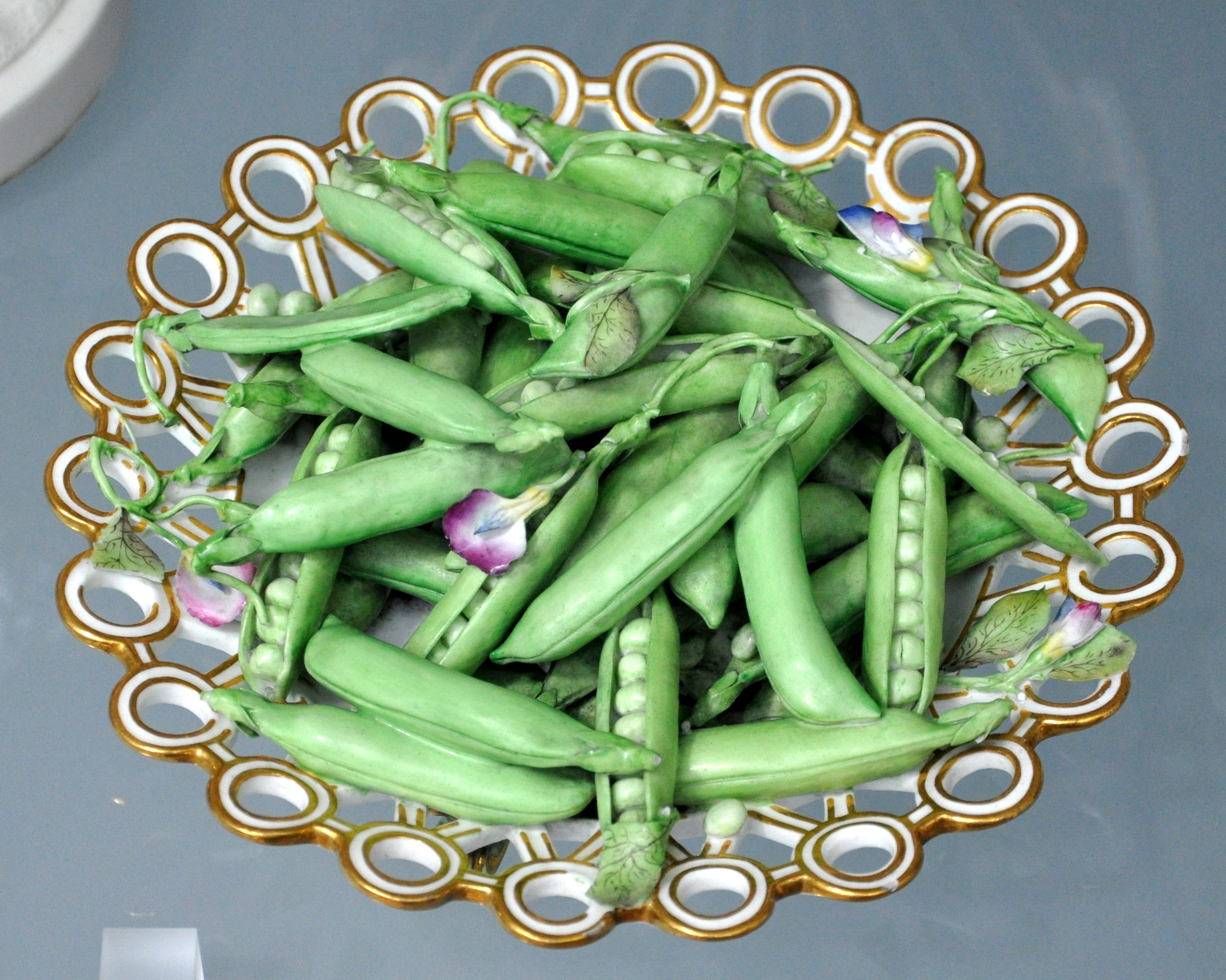 Dish filled with peas and pease blossom; bone china painted with enamels and gilded. Made by Minton & Co., Stoke-on-Trent, c. 1825 Victoria and Albert Museum, London, museum no. 414:810/A-1885 (Link)